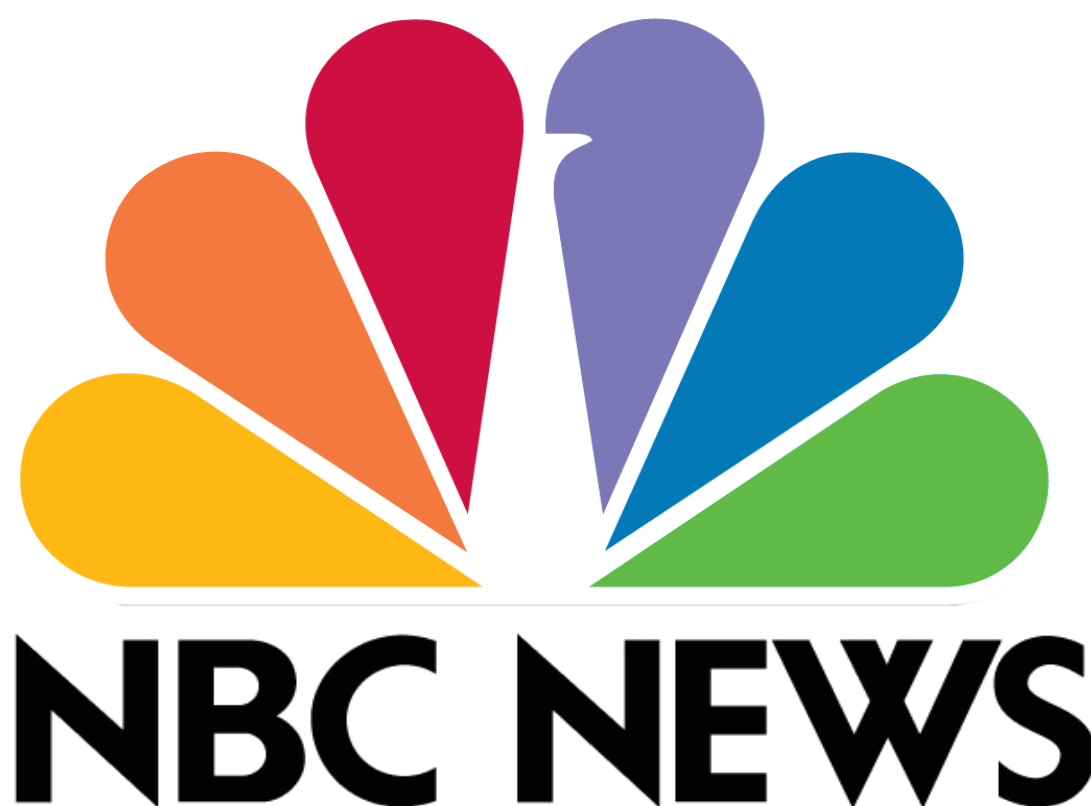 Logo for NBC News.